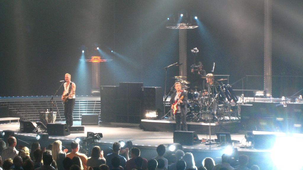 The Police (2007)